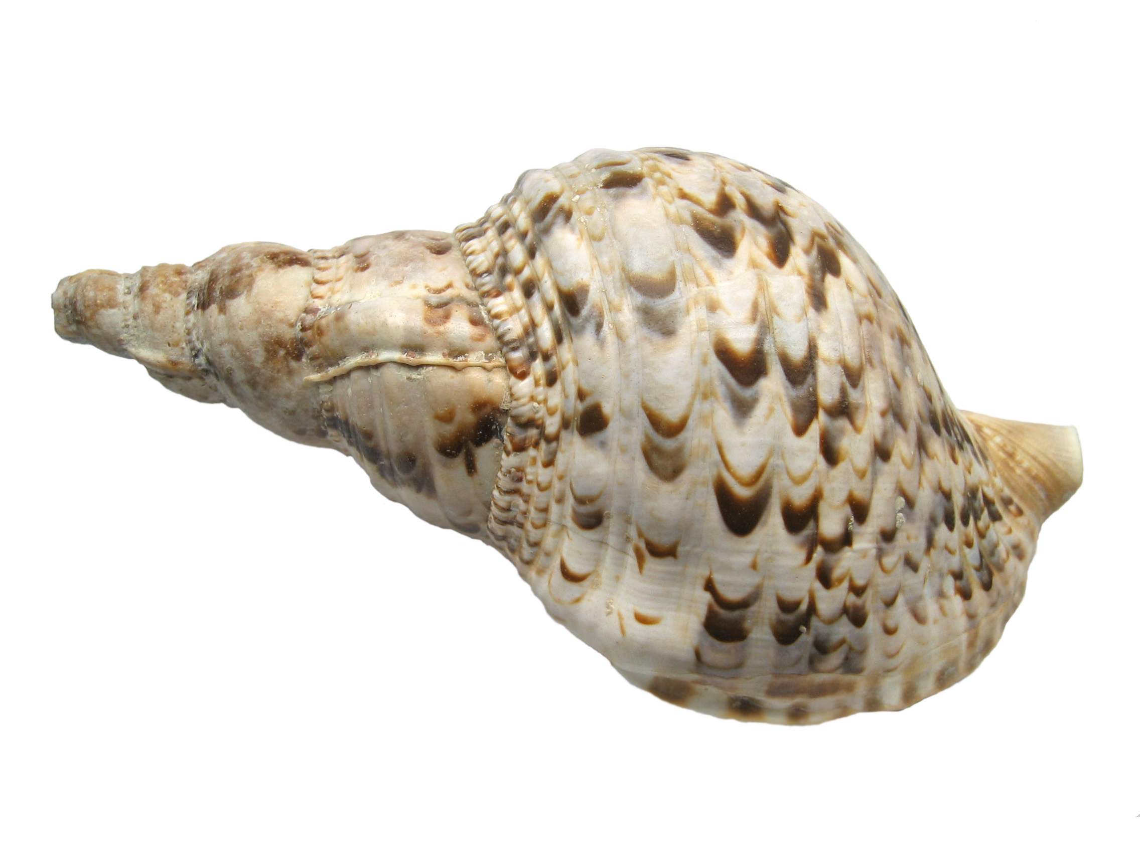 A macro of a large Charonia tritonis. It is approximately 9 inches long.